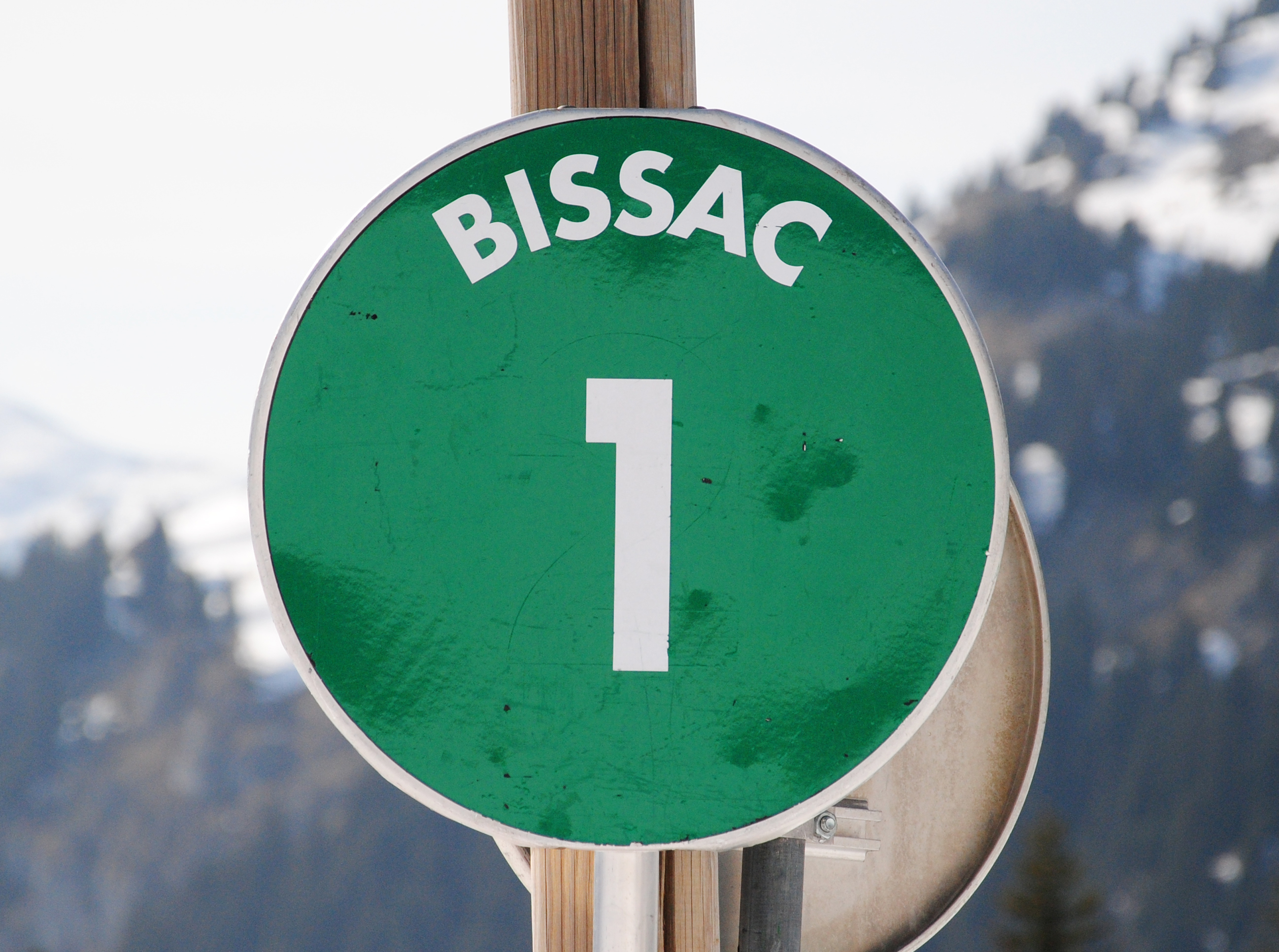 Sign at the side of the ski piste Bissac in Flaine, France